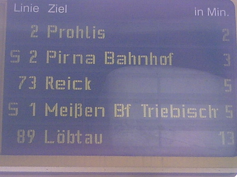 DFI display at station Hp.Dobritz, Dresden, Saxony, Germany